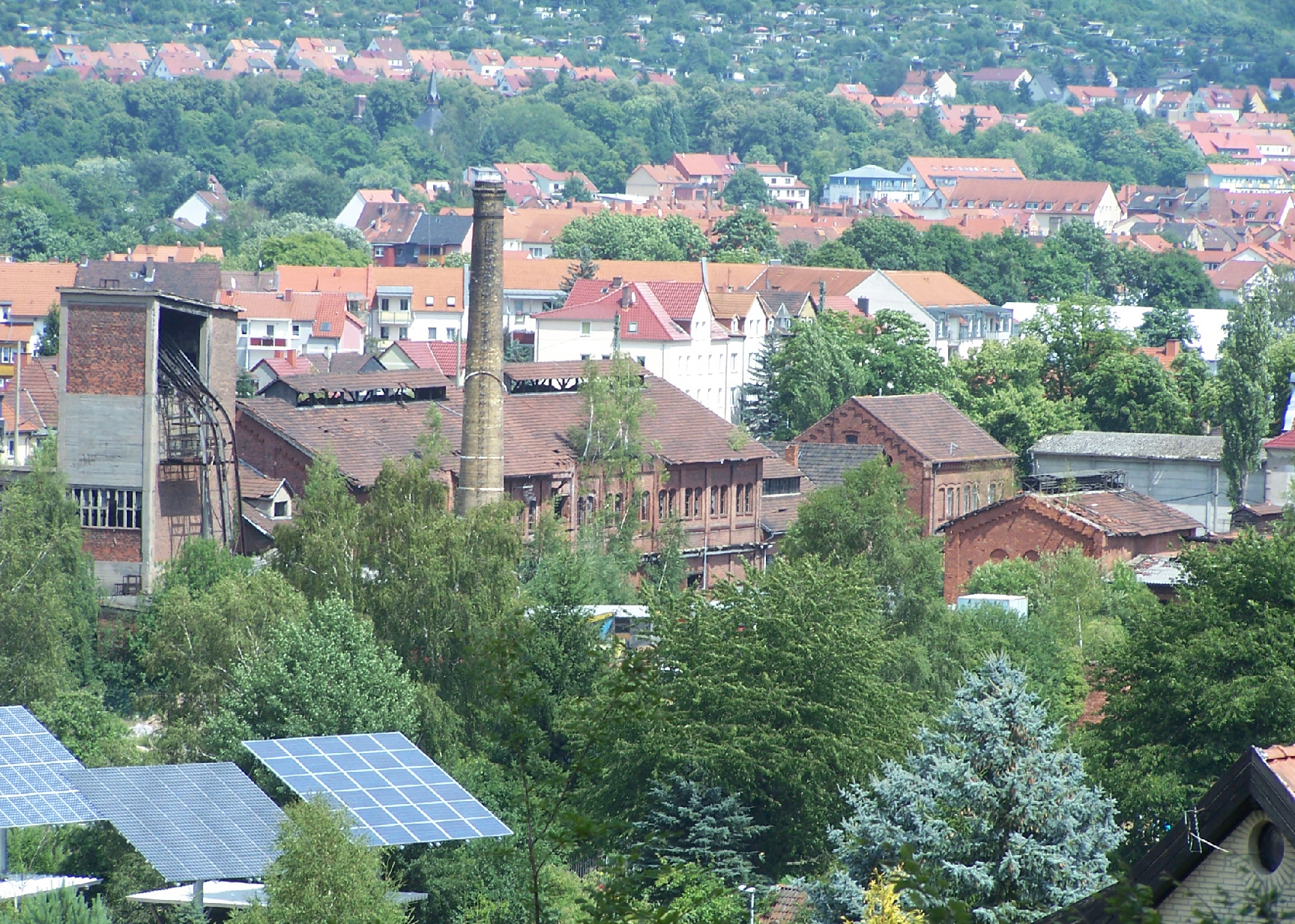 The ruins of the gasworks.